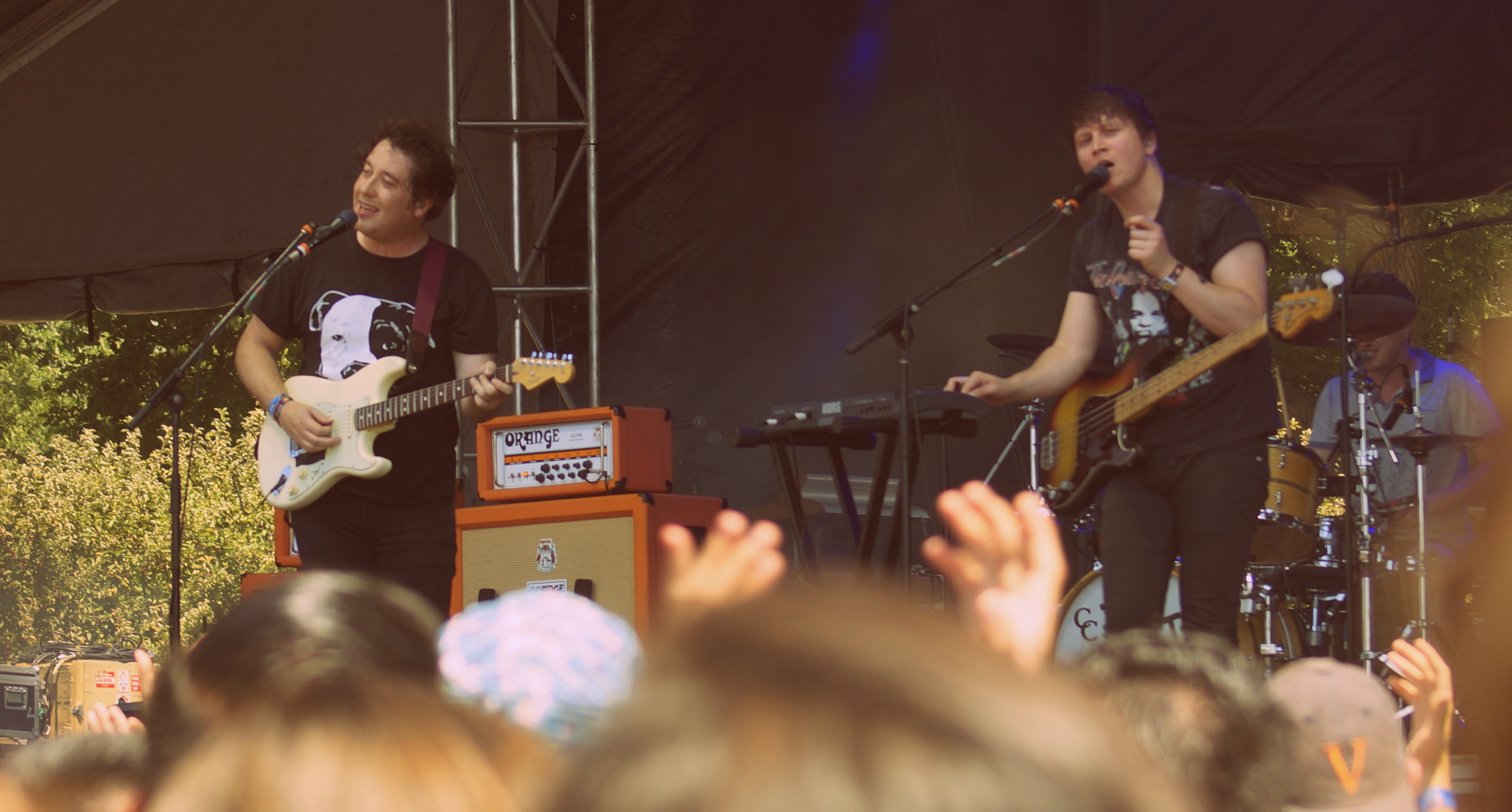 The Wombats at Lollapalooza 2015 More freely usable Lollapalooza 2015 Pictures.